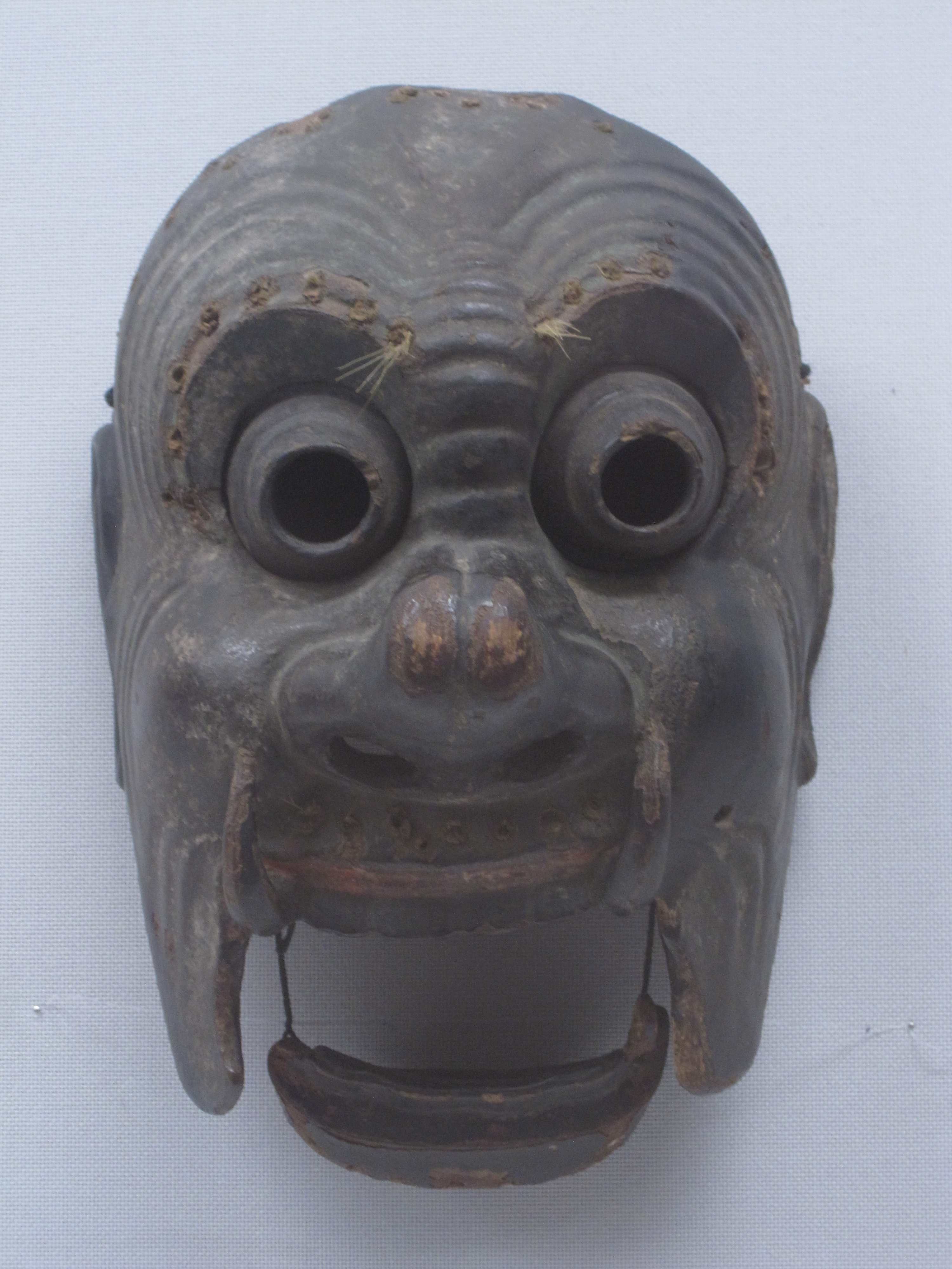 Bugaku mask Nasori made in 1211 (Important Cultural Property), the collection of Masumida jinja in Ichinomiya, Aichi. Displayed in Tokyo National Museum.